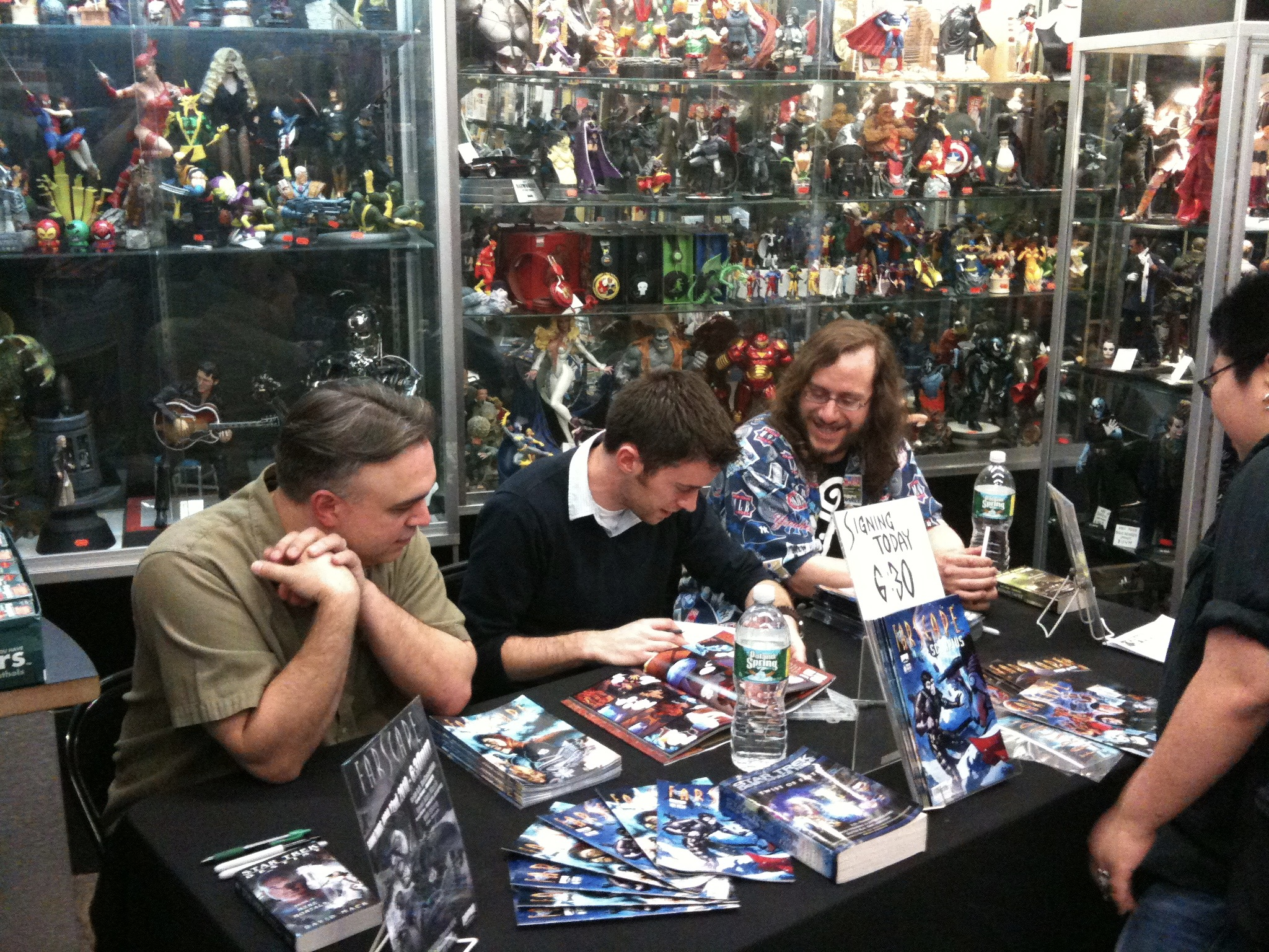 (From left to right:) Comic book creators David Alan Mack, Will Sliney and Keith DeCandido at a signing at Forbidden Planet in Manhattan.